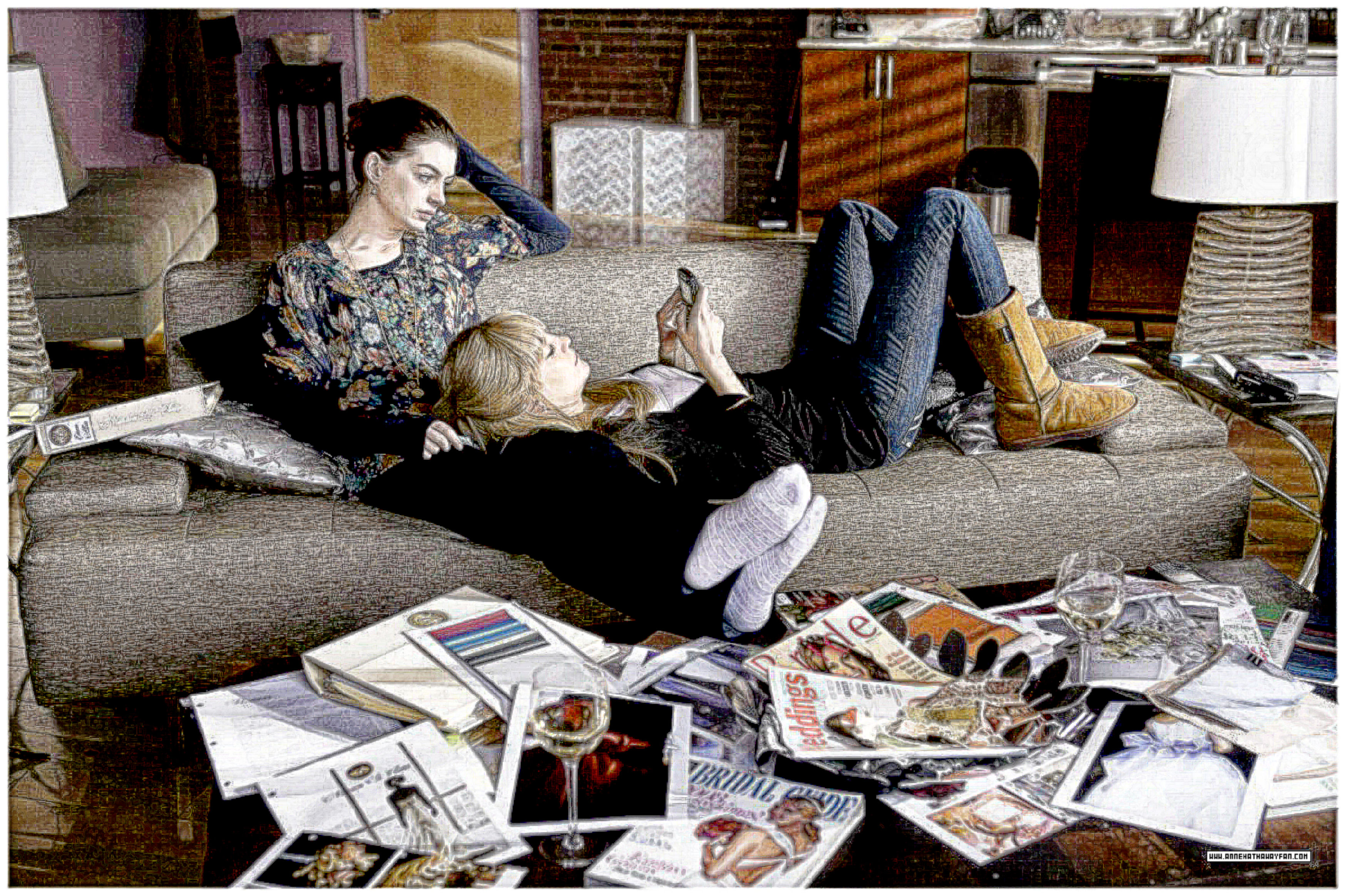 ... on a lazy Sunday afternoon. This is an adjustable "script" that is default to my PSP 9 Paint Shop software. I enjoy the engraving like surface it leaves. When you're in a non-verbal state it's best to avoid trying to force it, better to just talk about software...lol...